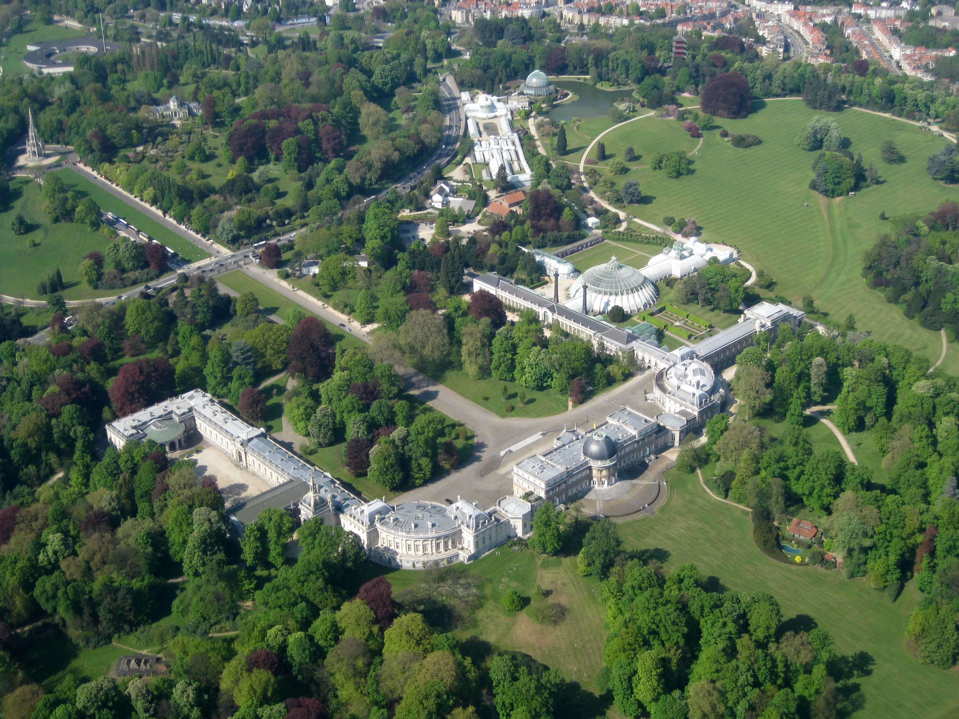 Royal Palace Laeken, Brussels, from the air. View from the South, looking due North.